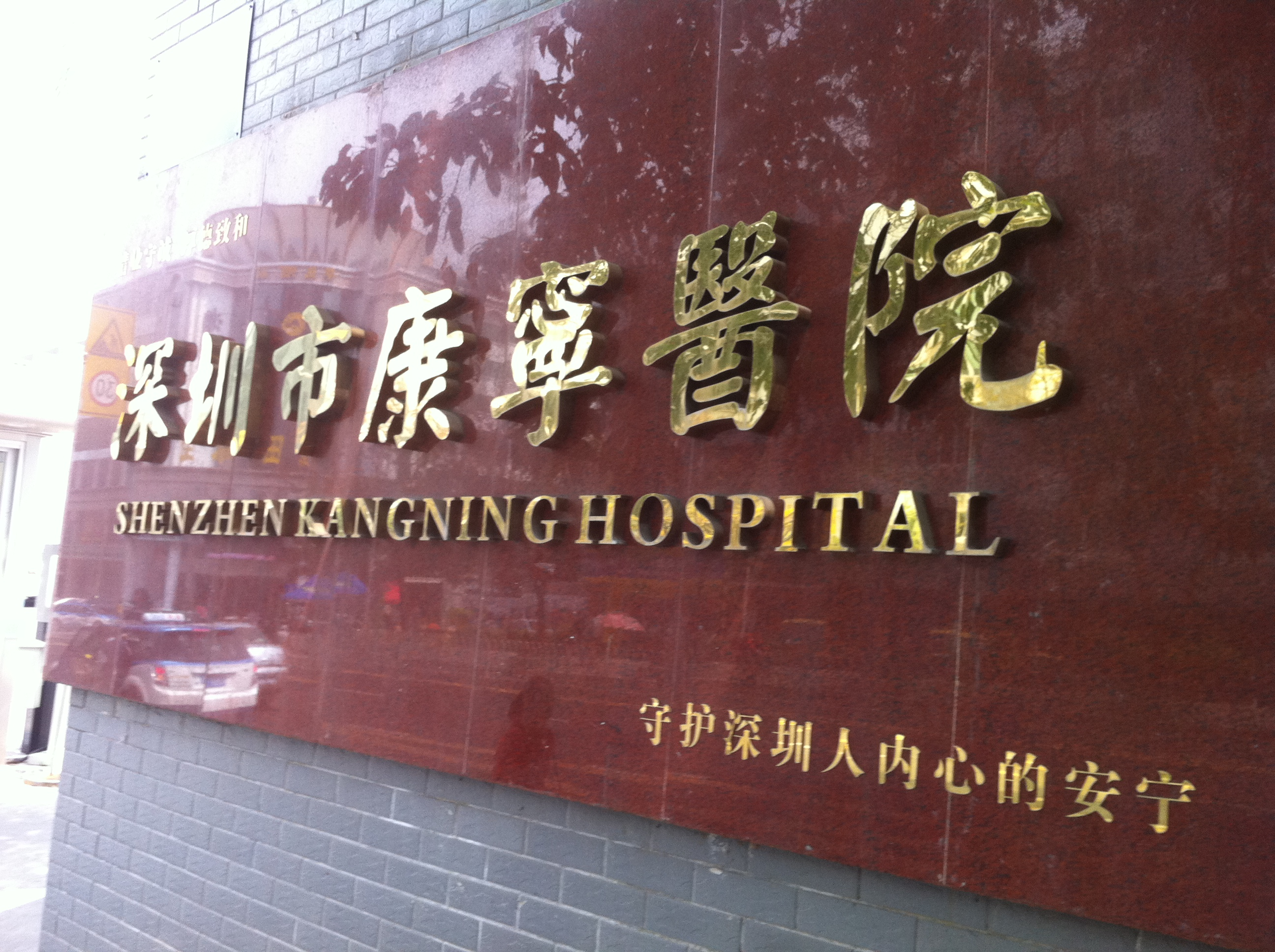 Shenzhen Kangning Psychiatric Hospital